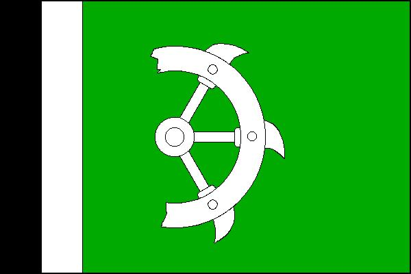 Municipal flag of Nový Poddvorov village, Hodonín District, Czech Republic.